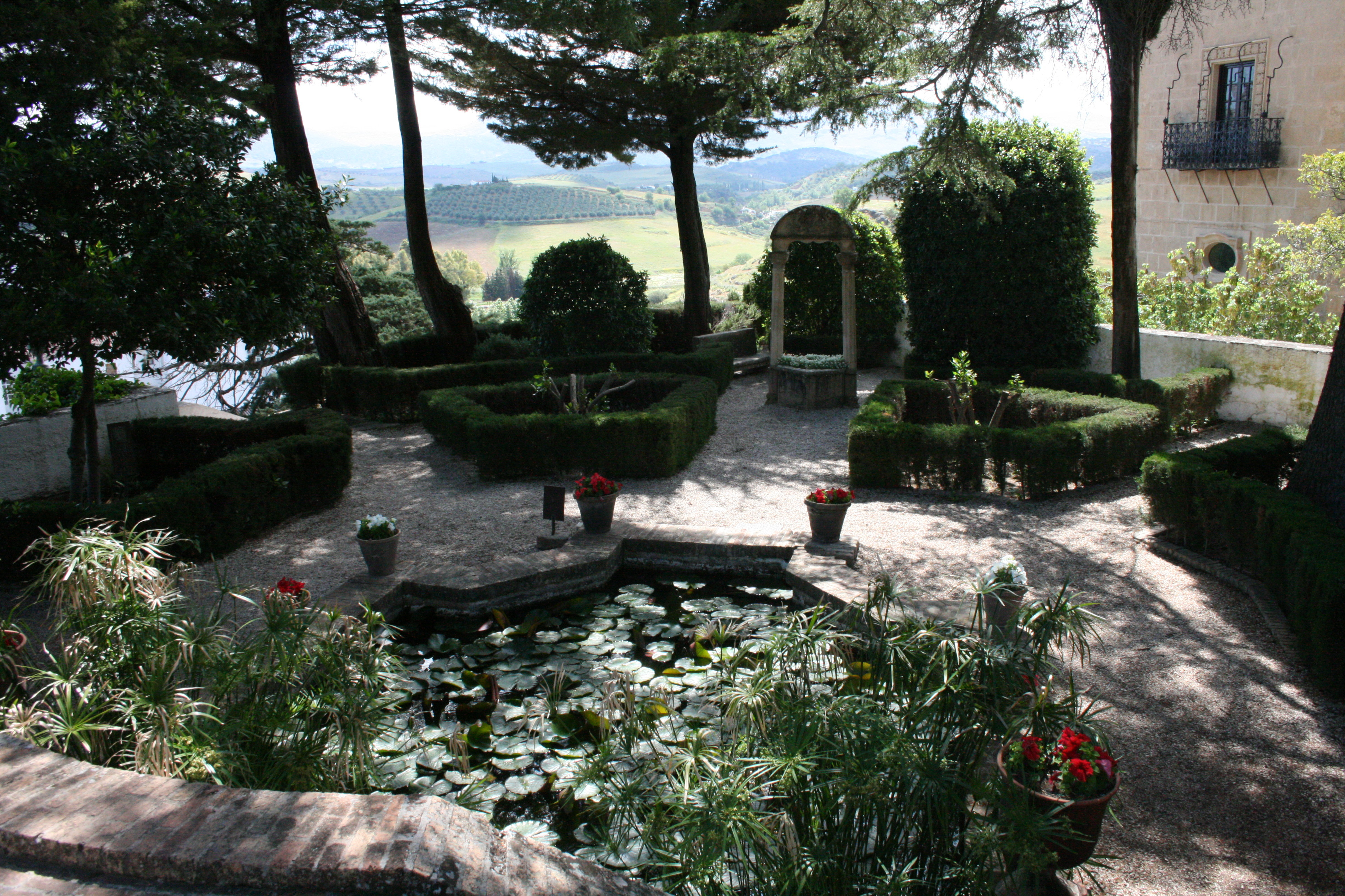 Casa del Rey Moro (House of the Moorish King), Ronda, Spain. Gardens designed by the French landscape gardener, Jean-Claude Forestier, in 1912.